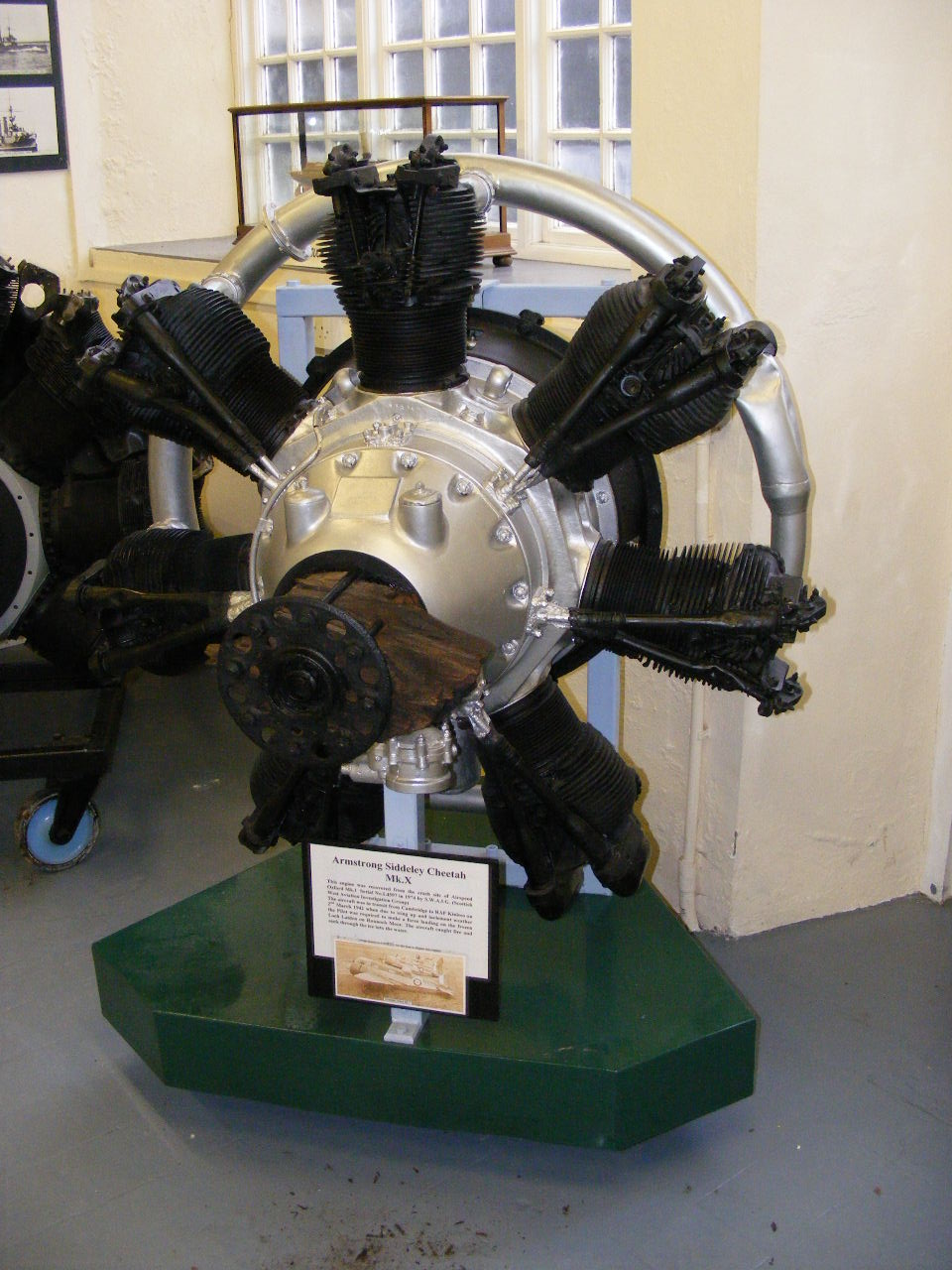 Armstrong Siddeley Cheetah Mk.X radial aircraft engine from an Airspeed Oxford aircraft